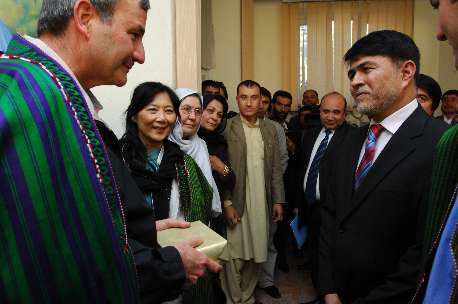 U.S. Ambassador Karl Eikenberry with Governor Abdul Haq Shafaq in Faryab Province, Afghanistan.